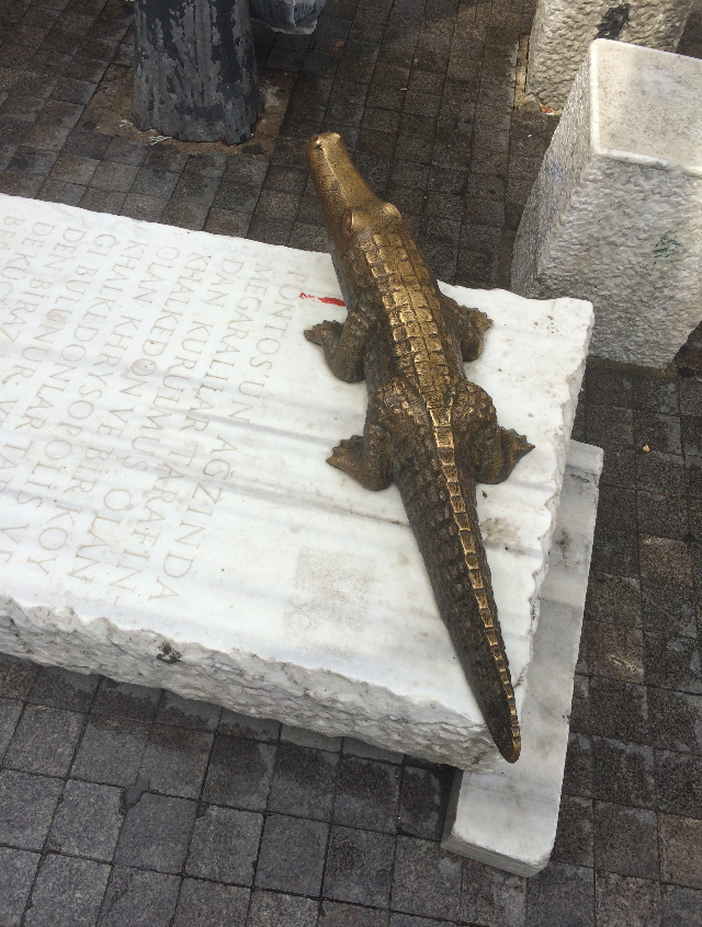 Kadikoy Crocodile Statue